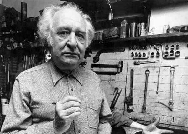 Gabriel Celaya in his workshop